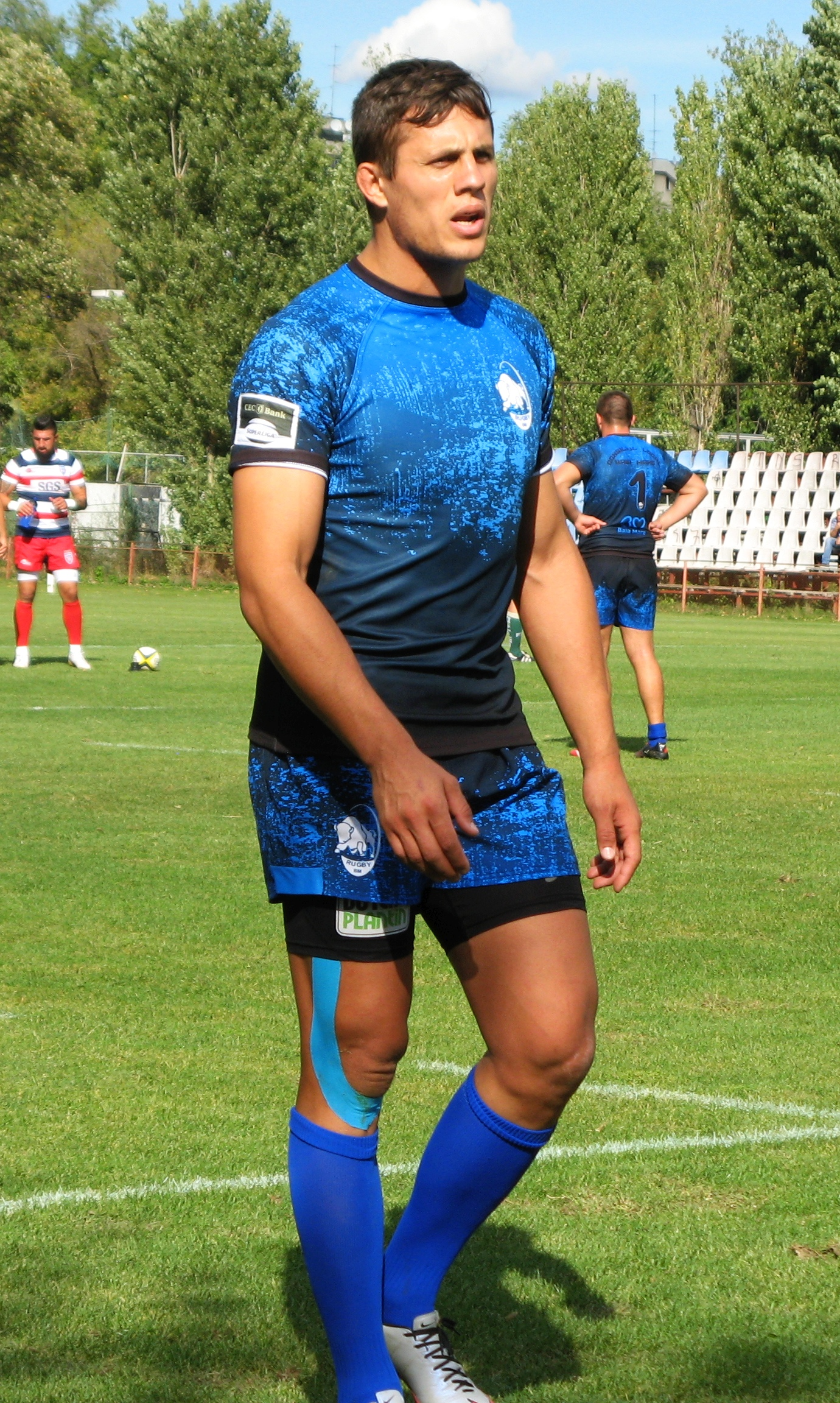 Romanian rugby union international Adrian Apostol, player of CSM Baia Mare rugby club seen in a match against CSA Steaua București in Round 5 of Romanian Rugby SuperLiga in September 2017